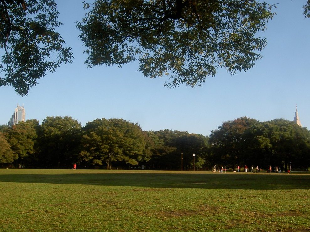 Yoyogi Park, in Tokyo`s Shibuya Ward. Skyscrapers such as the Shinjuku Park Tower (left) and the NTT DoComo Yoyogi Building (right) stand behind the park.